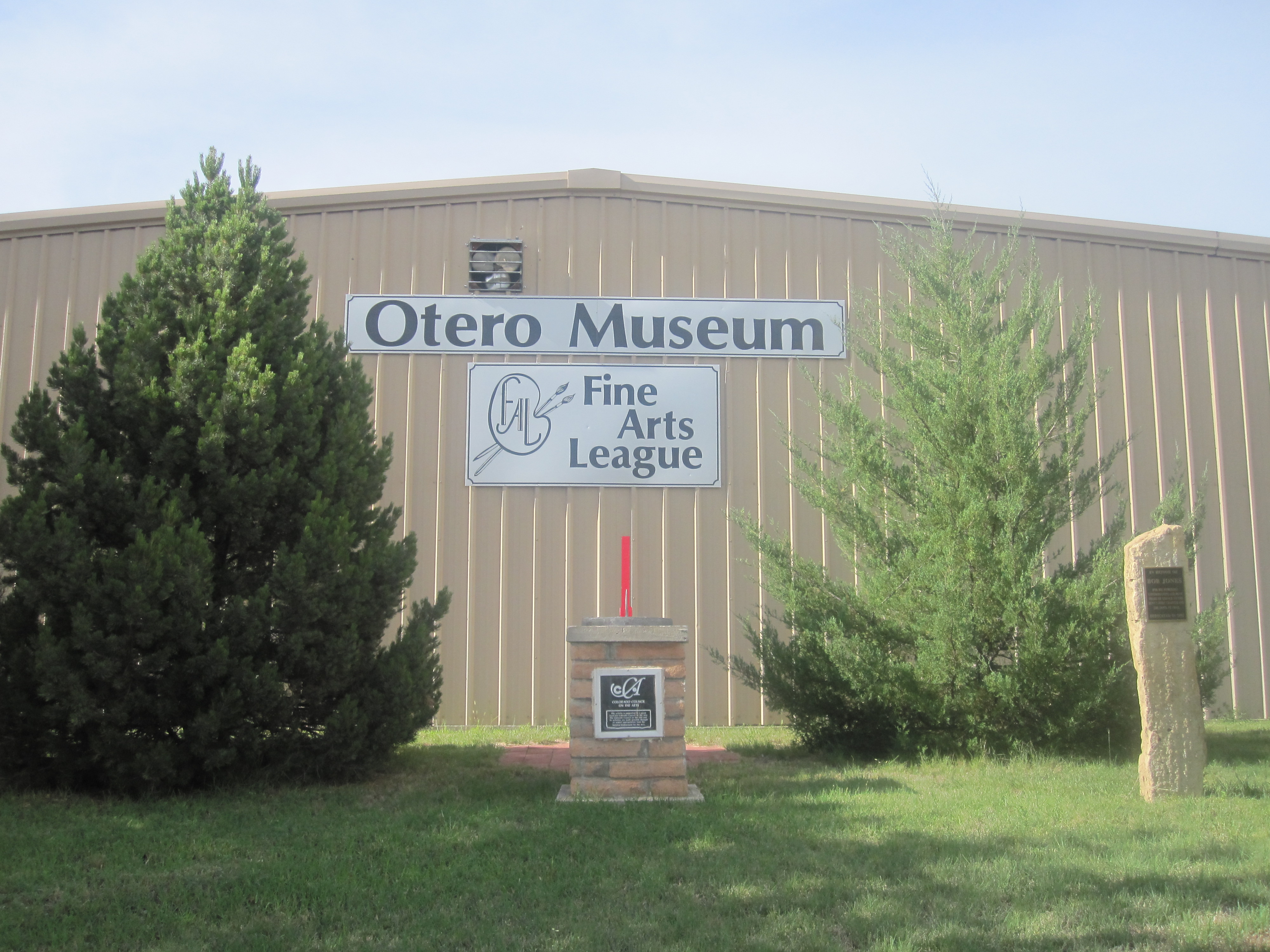 I took photo with Canon camera in La Junta, CO.